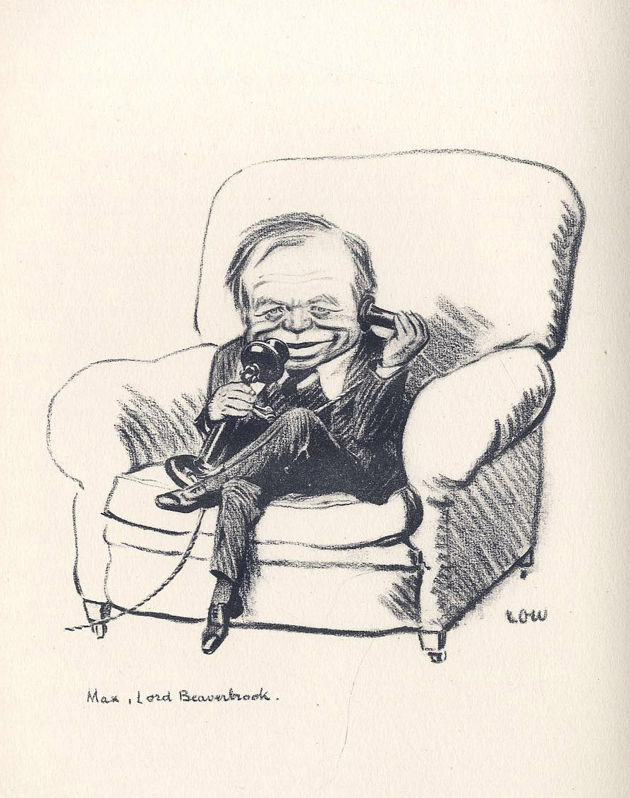 Caricature of Max Aitken in Lions and Lambs.